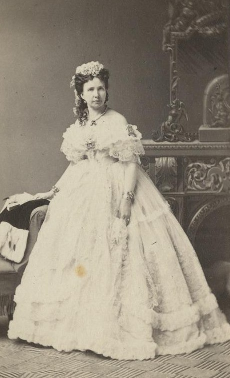 Minokwitz von Constance, nee von Ungern-Sternberg (1829-1898)